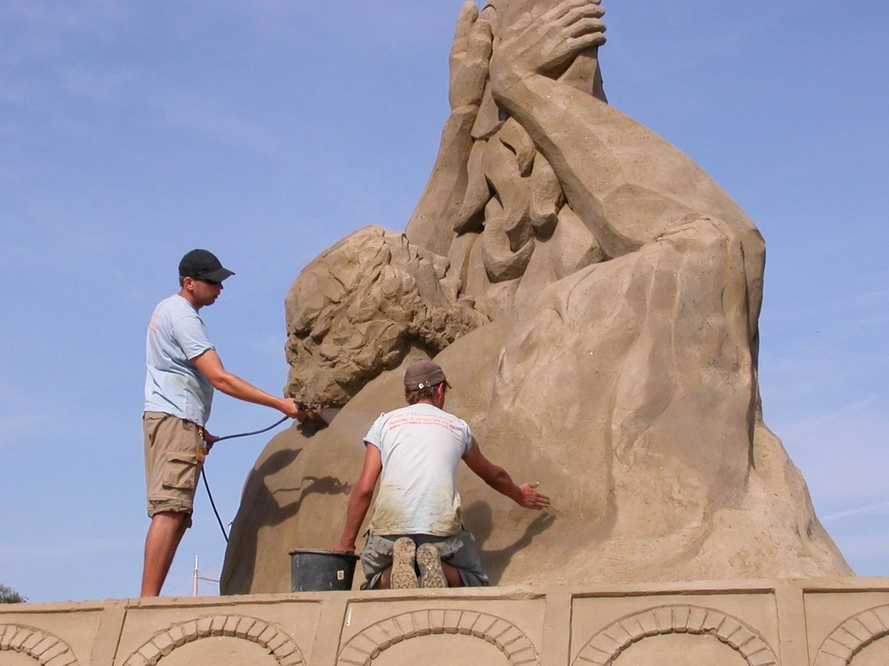 Sand World Festival 2003: modeling of sand sculptures